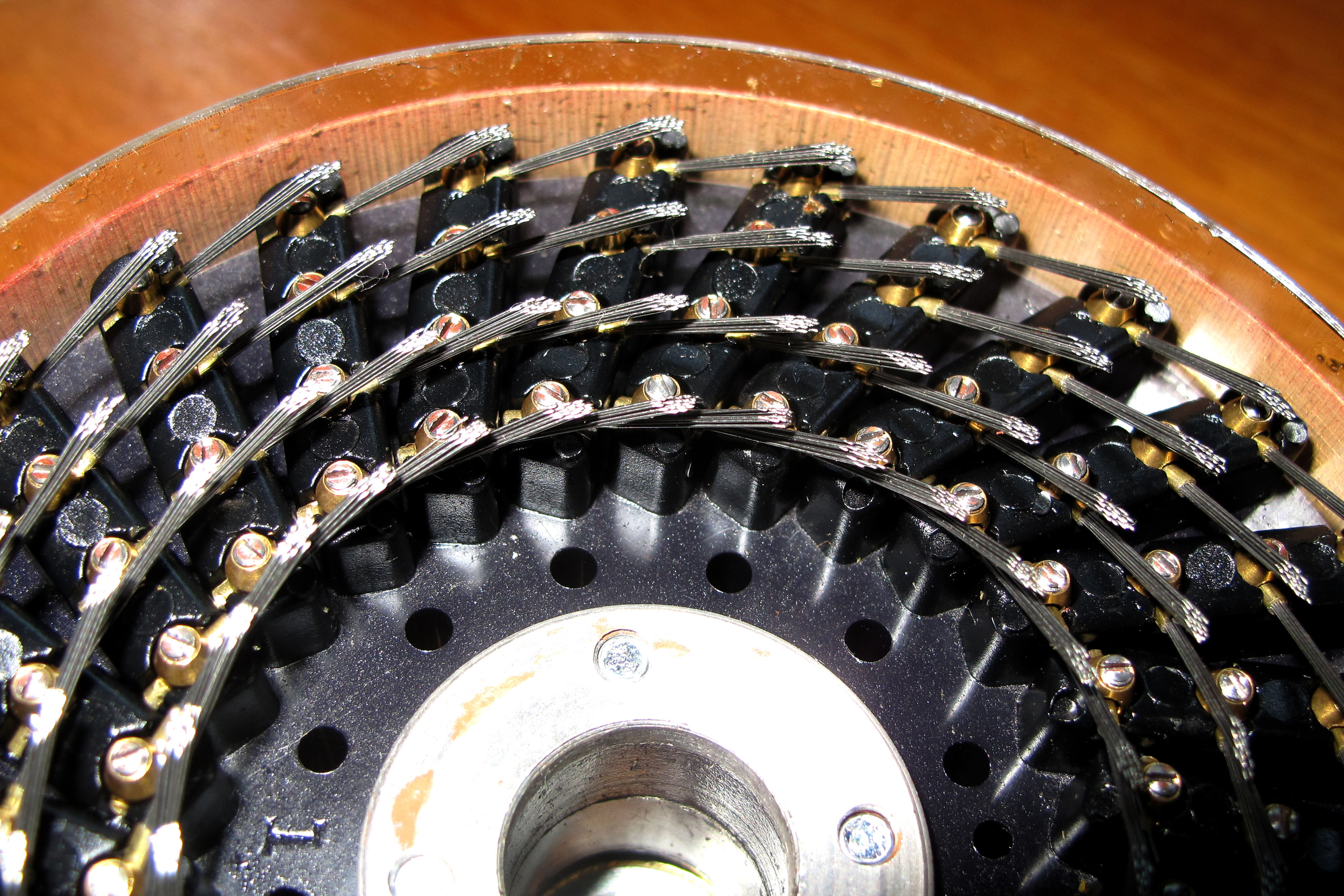 The wire brushes on the back of one drum from the working reconstucted bombe at Bletchley Park. The rows of brushes make electrical contact providing two sets of input and output.